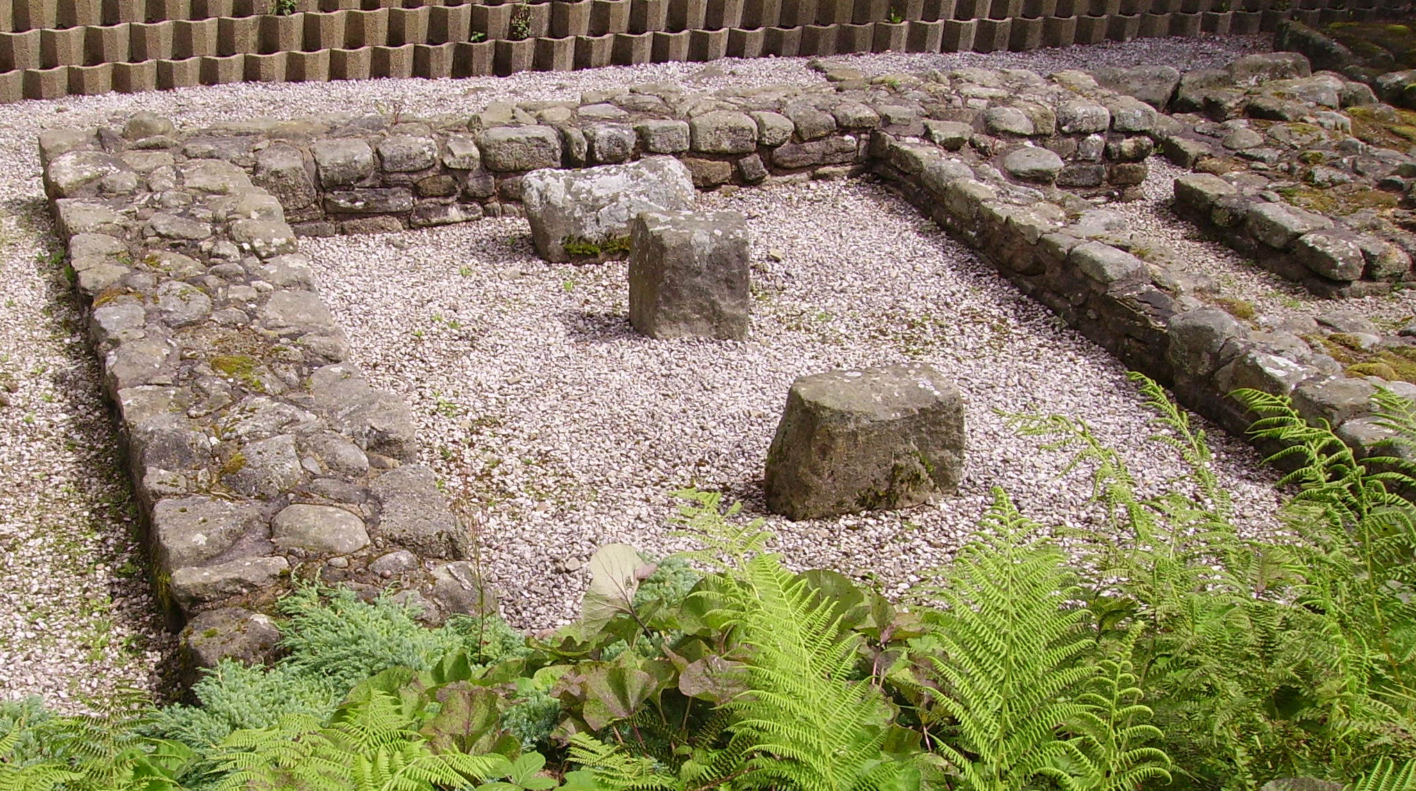 view of Ribchester, United Kingdom